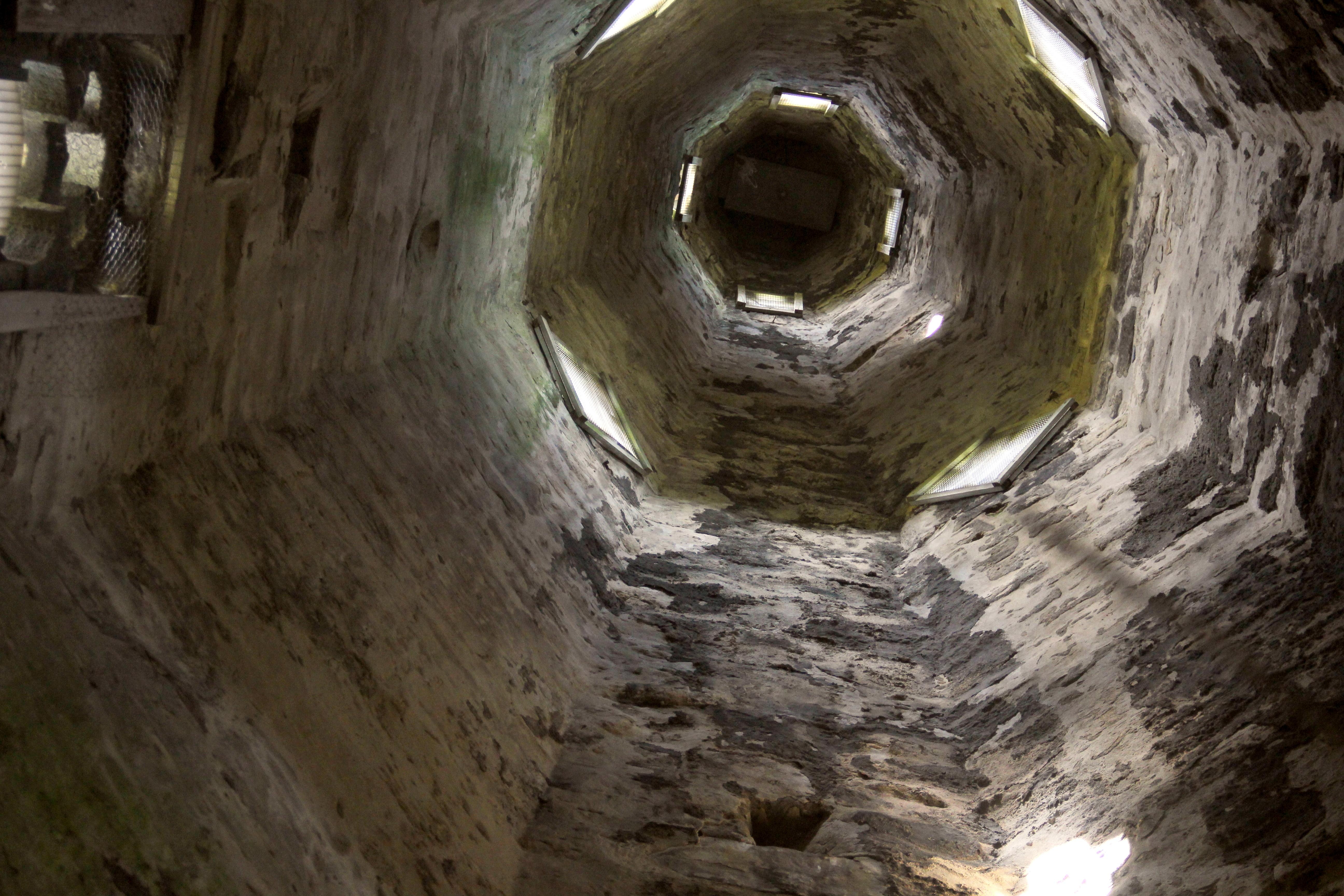 A view through the belfry ceiling and up the inside of the spire of St Thomas' parish church, Thurstonland, Huddersfield, West Yorkshire, England. The spire is freestanding, having no interior support. Its interior is lit by daylight from three sets of four lucarnes.